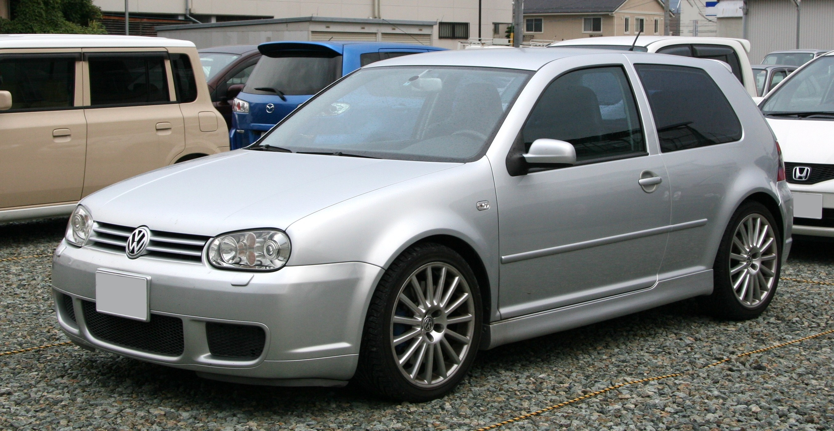 VW Golf in Japan